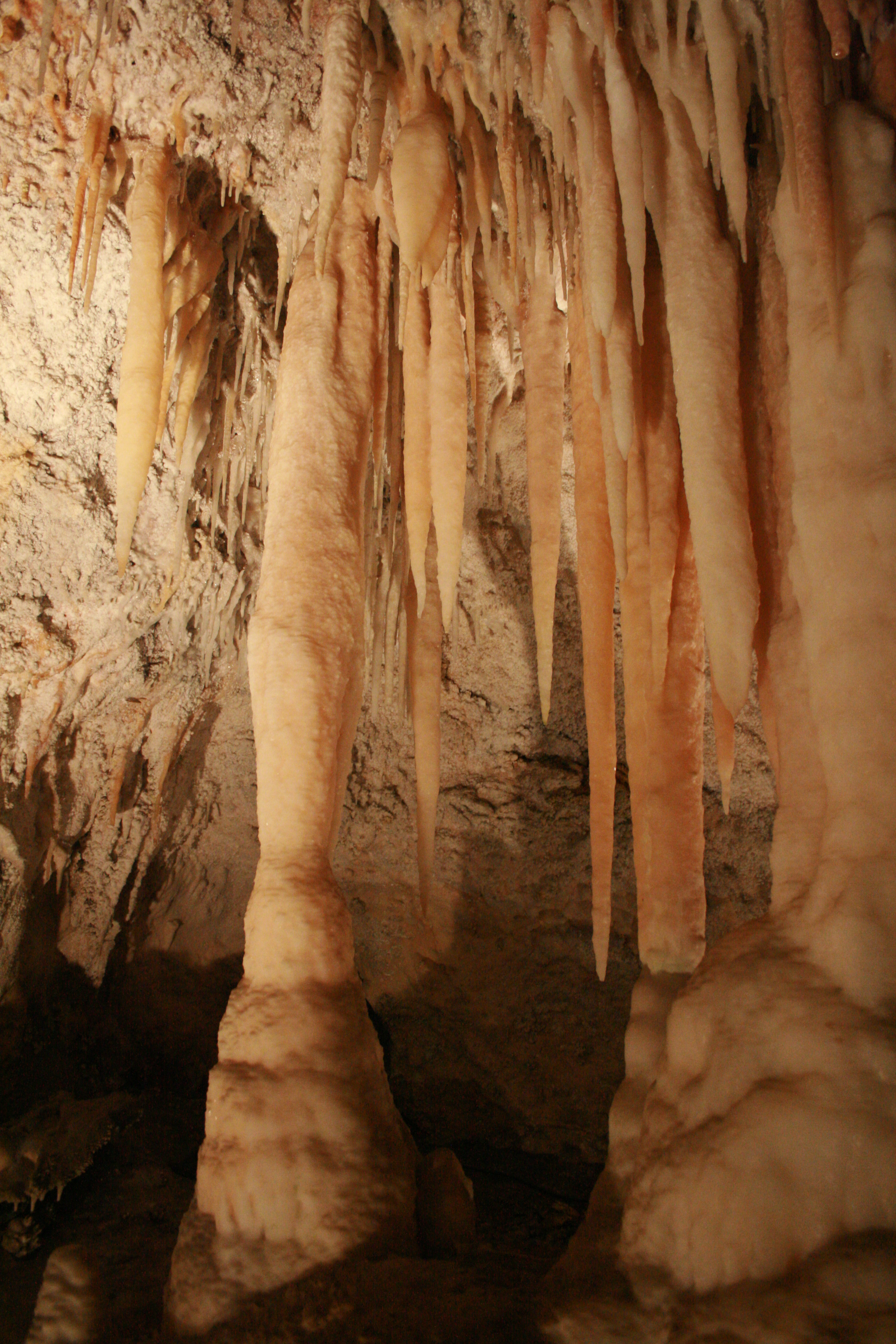 Limestone formations in the Imperial Cave at Jenolan Caves, NSW, Australia.